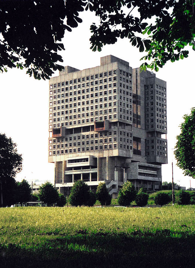 Kaliningrad - the House of Soviets